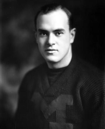 Photograph of Robert J. Dunne